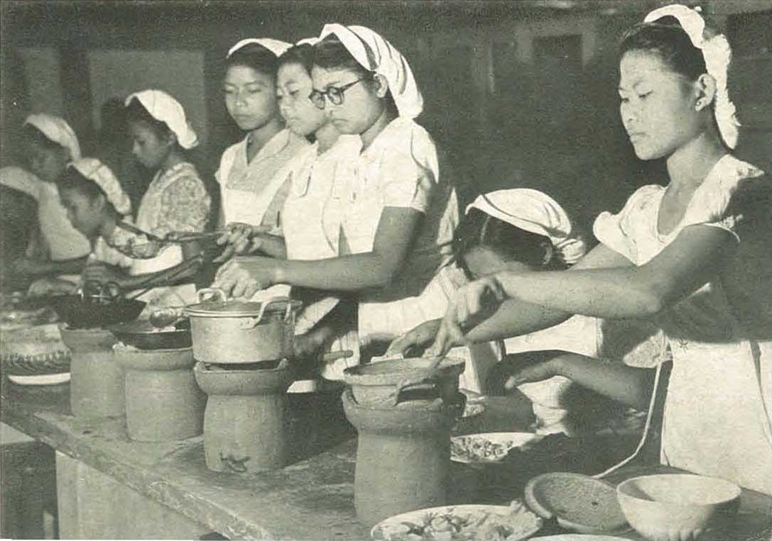 Women cooking